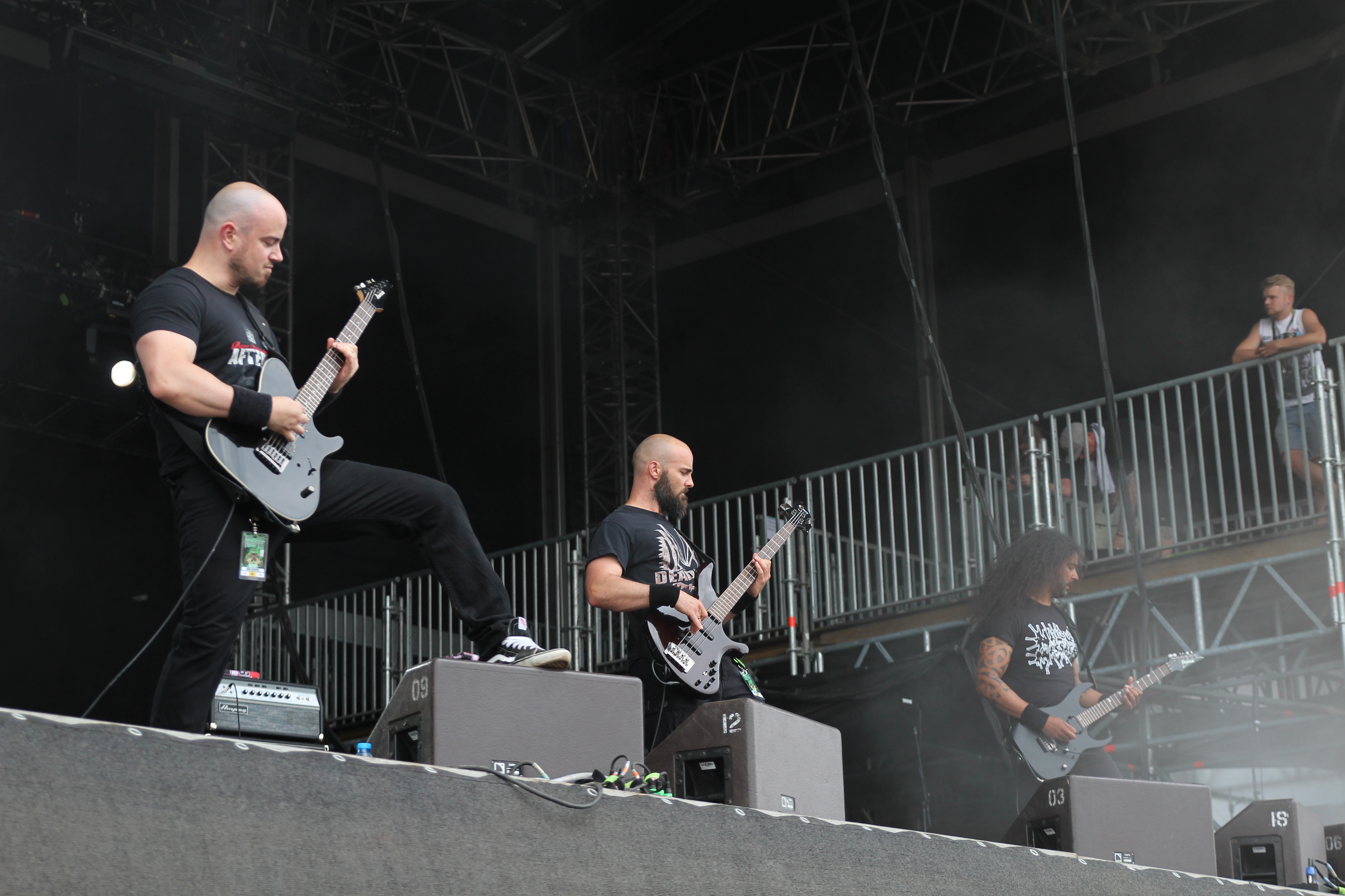 The German thrash metal band Dew-Scented at the With Full Force festival 2014 in Roitzschjora/Germany